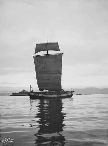 Norwegian boat Jekt near Munkholmen outside Trondheim, 1906